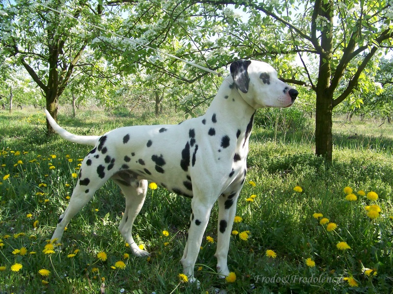 Dalmatian with black spot (Bamsej Magiczna Oaza)